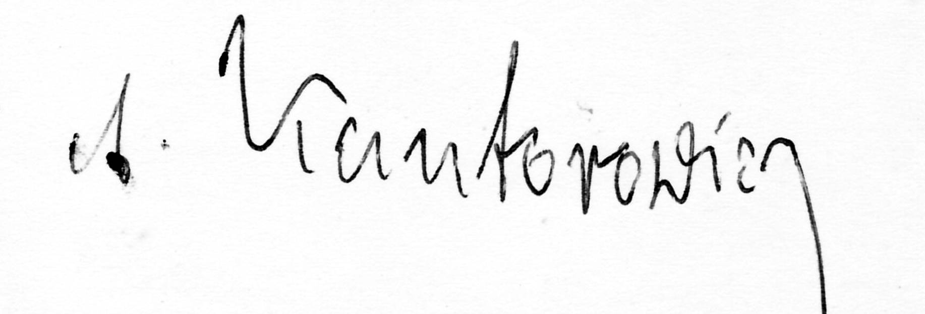 Scan of signature from original letter, 1967